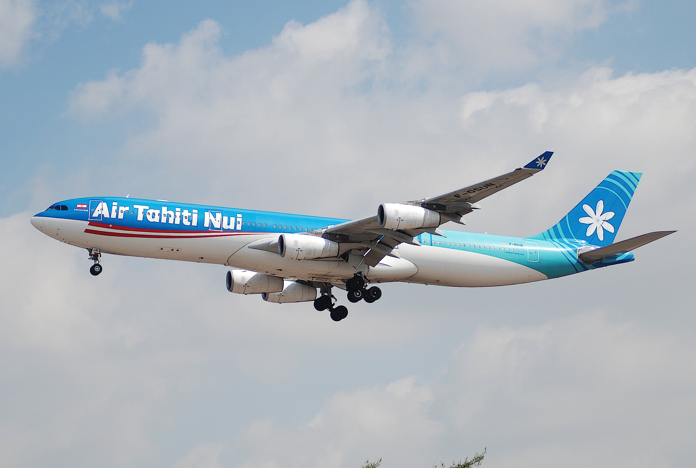 named: Moorea